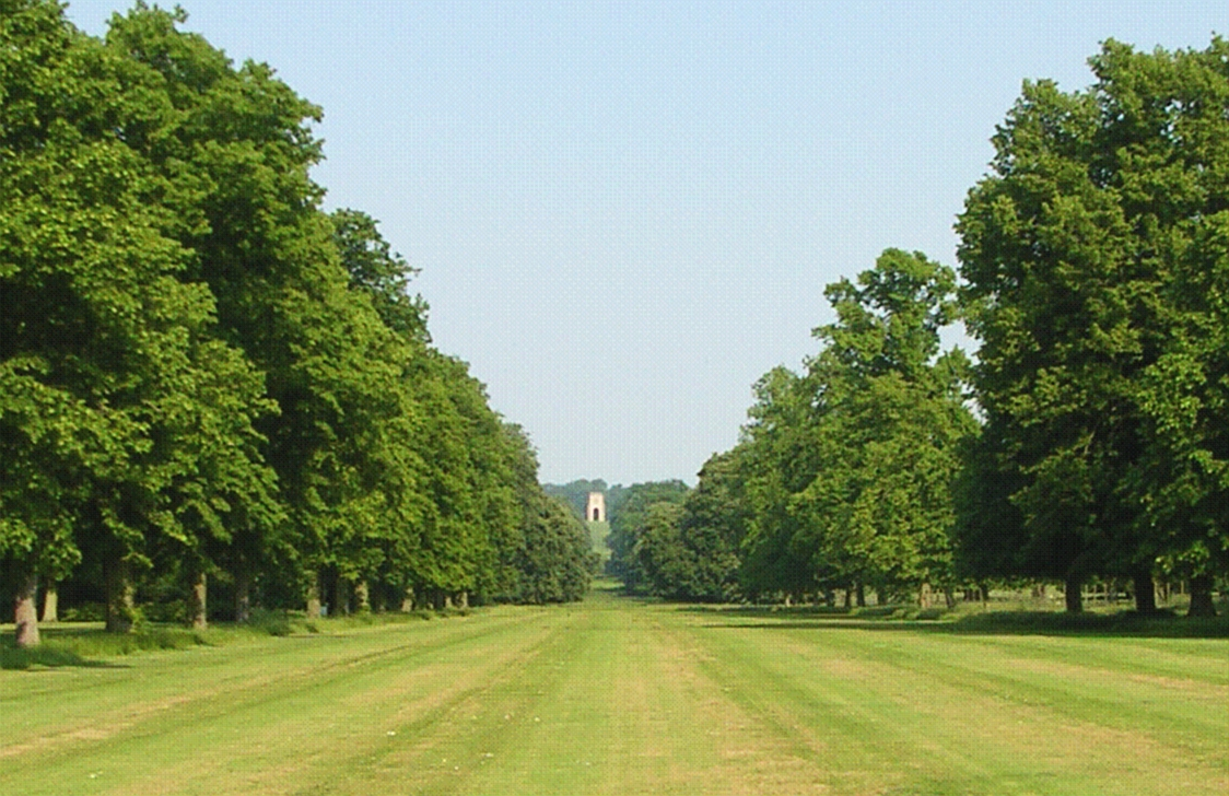 Garden of Belton House, England. Photographed by Giano June 2006. Retouched by Rugby471.